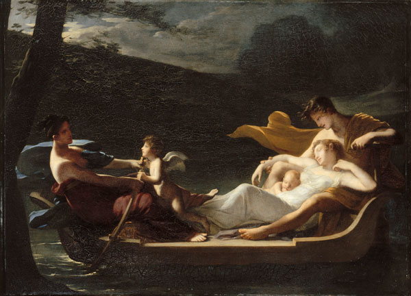 The Dream of Happiness' (1819) by Constance Mayer